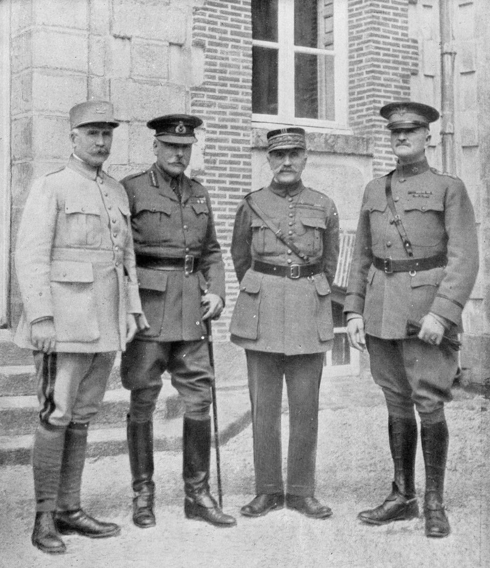 Photo of Marechal Pétain, douglas Haig, Maréchal Ferdinand Foch and General pershing, 1918